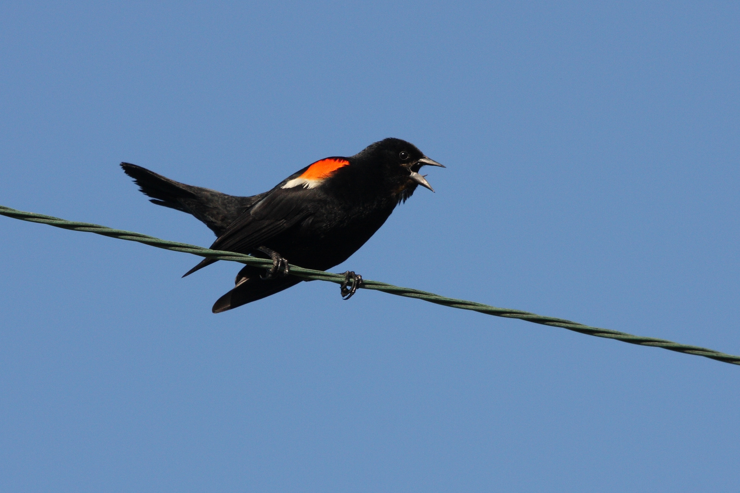 Red-winged Blackbird, Saint-Camille, Quebec, Canada